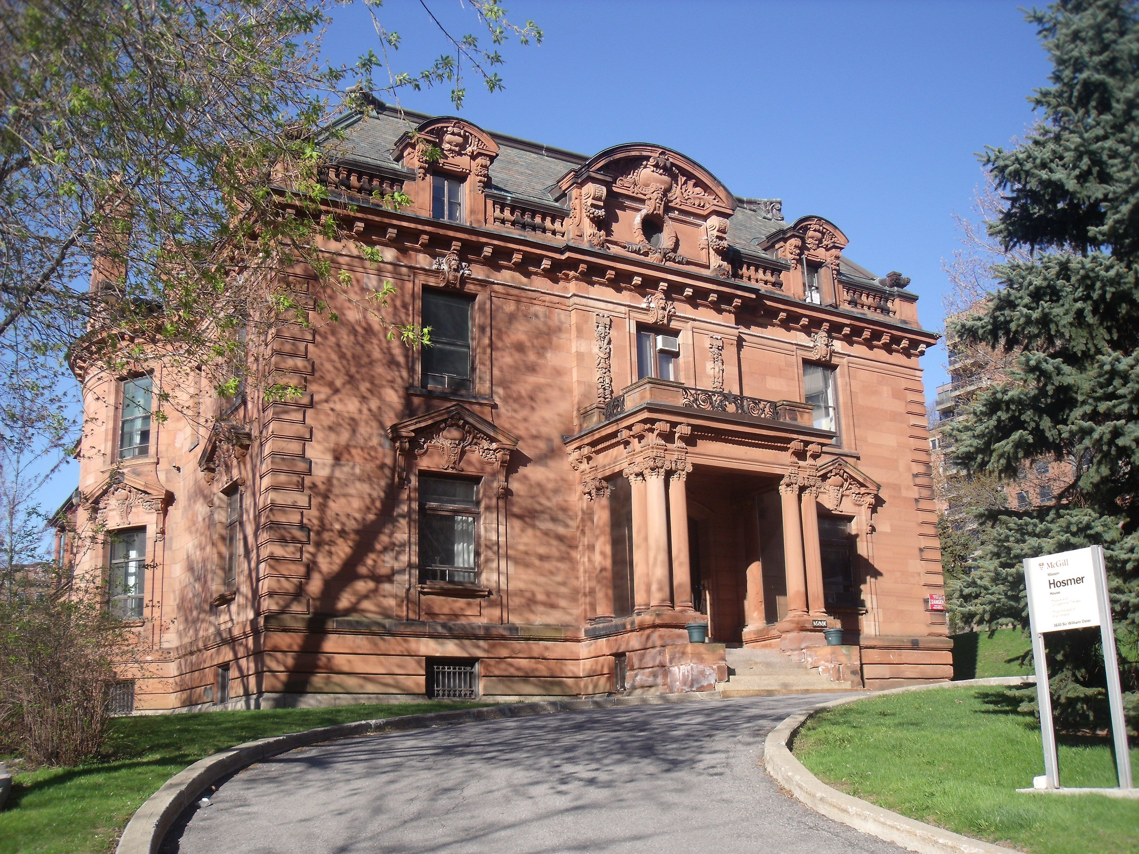 Charles Rudolph Hosmer House (1901), 3630 Sir-William-Osler Promenade (Drummond Street), Montreal, Quebec, Canada.